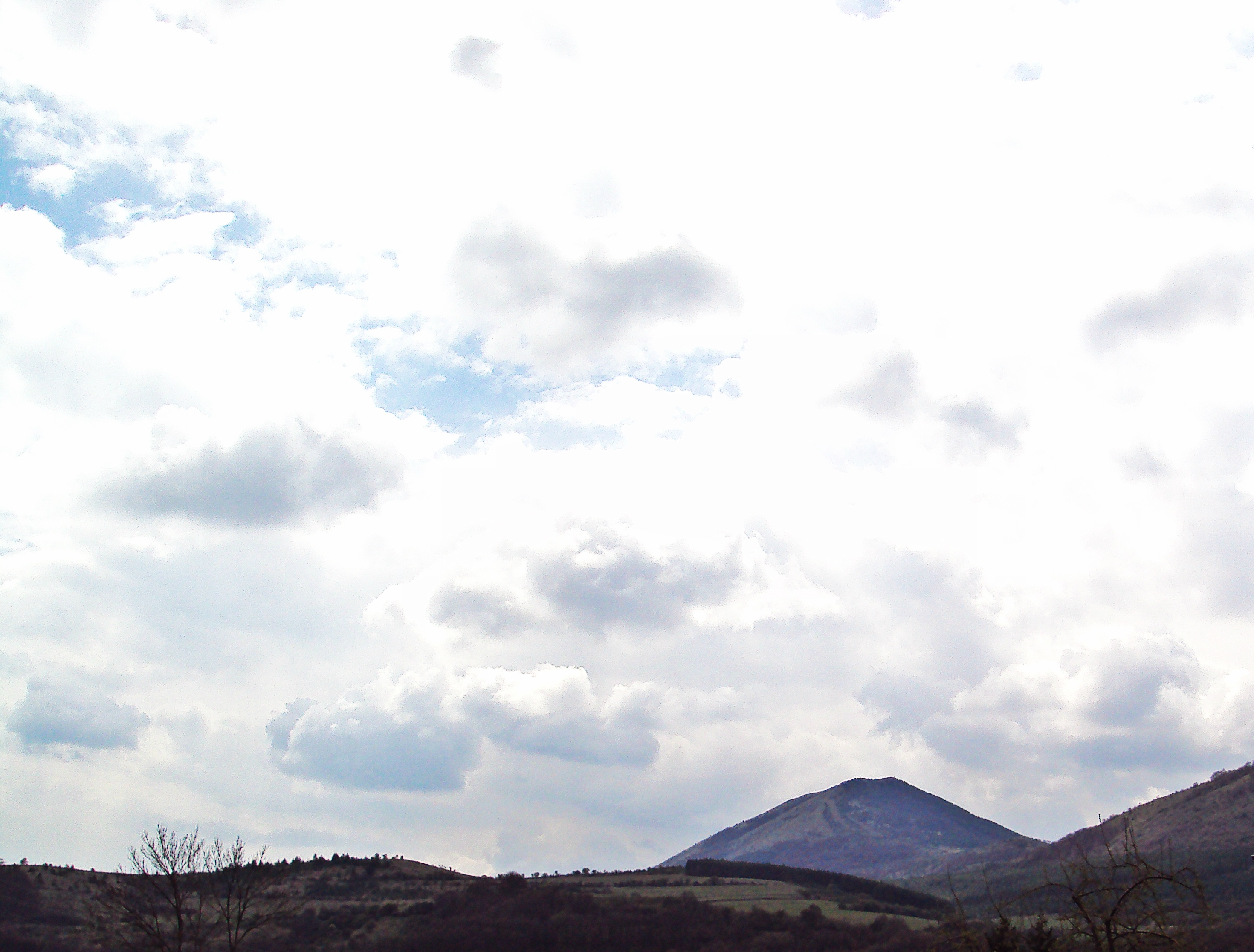 View Paramun Bulgaria